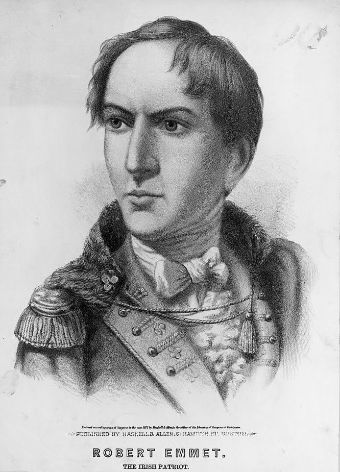 Robert Emmet (4 March 1778 – 20 September 1803) was an Irish nationalist rebel leader. He led an abortive rebellion against British rule in 1803 and was captured, tried and executed.